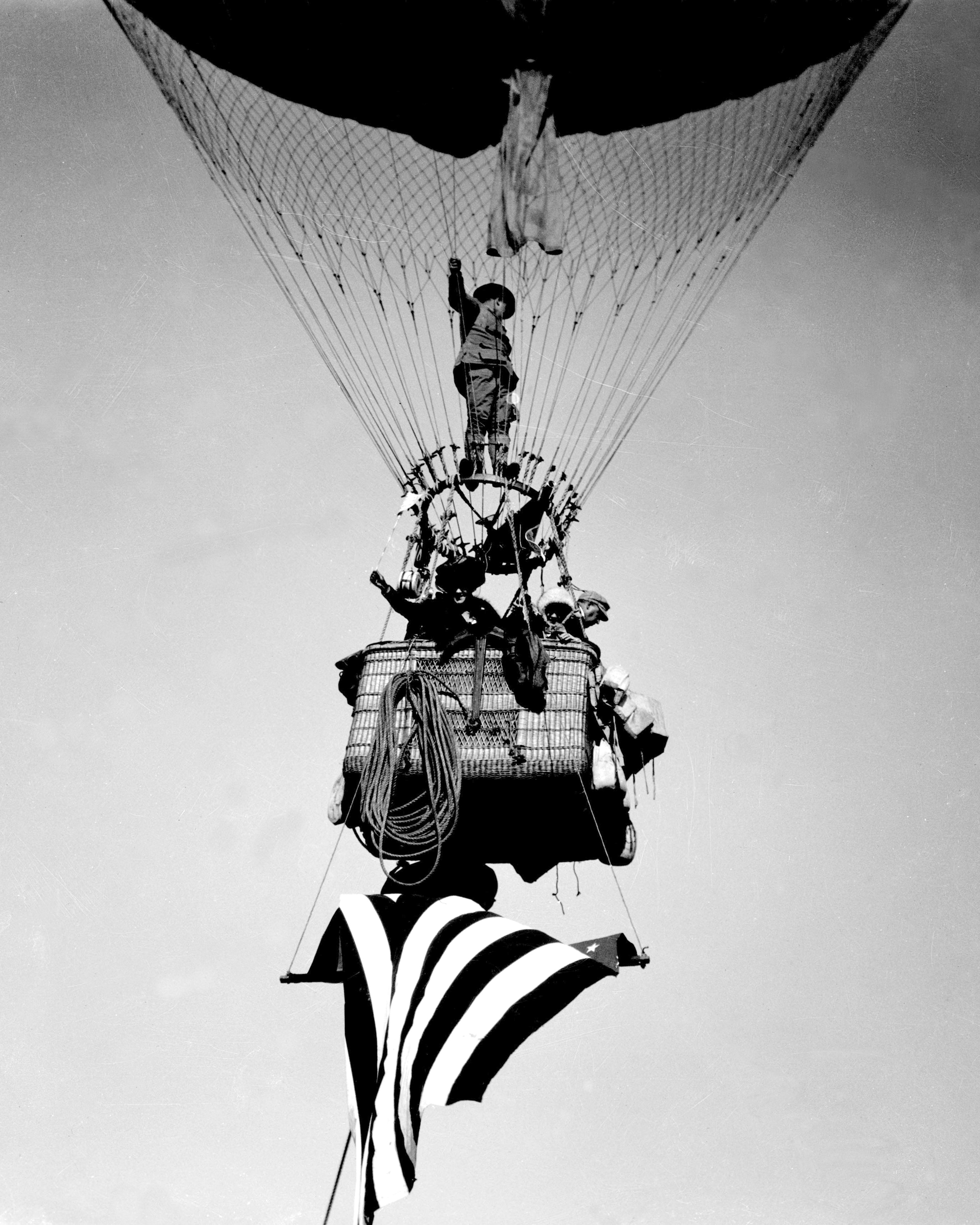 Balloon showing George B. Harrison standing on concentrating ring, Clifford Harmon peering over the side with Mrs. Paulhan and a companion at the Dominguez Air Meet, 1910 Photograph of a balloon showing George B. Harrison standing on concentrating ring, Clifford Harmon peering over the side and Mrs. Paulhan and a companion waving in the Dominguez Air Meet, 1910. The basket holding the people is at center, and attached to it by strings is the balloon. George Harrison is standing inside the ropes connecting the balloon to the basket with his arms stretched out to the sides. There is an American flag billowing in the wind under the balloon, and a coiled rope is thrown over the side of the basket.